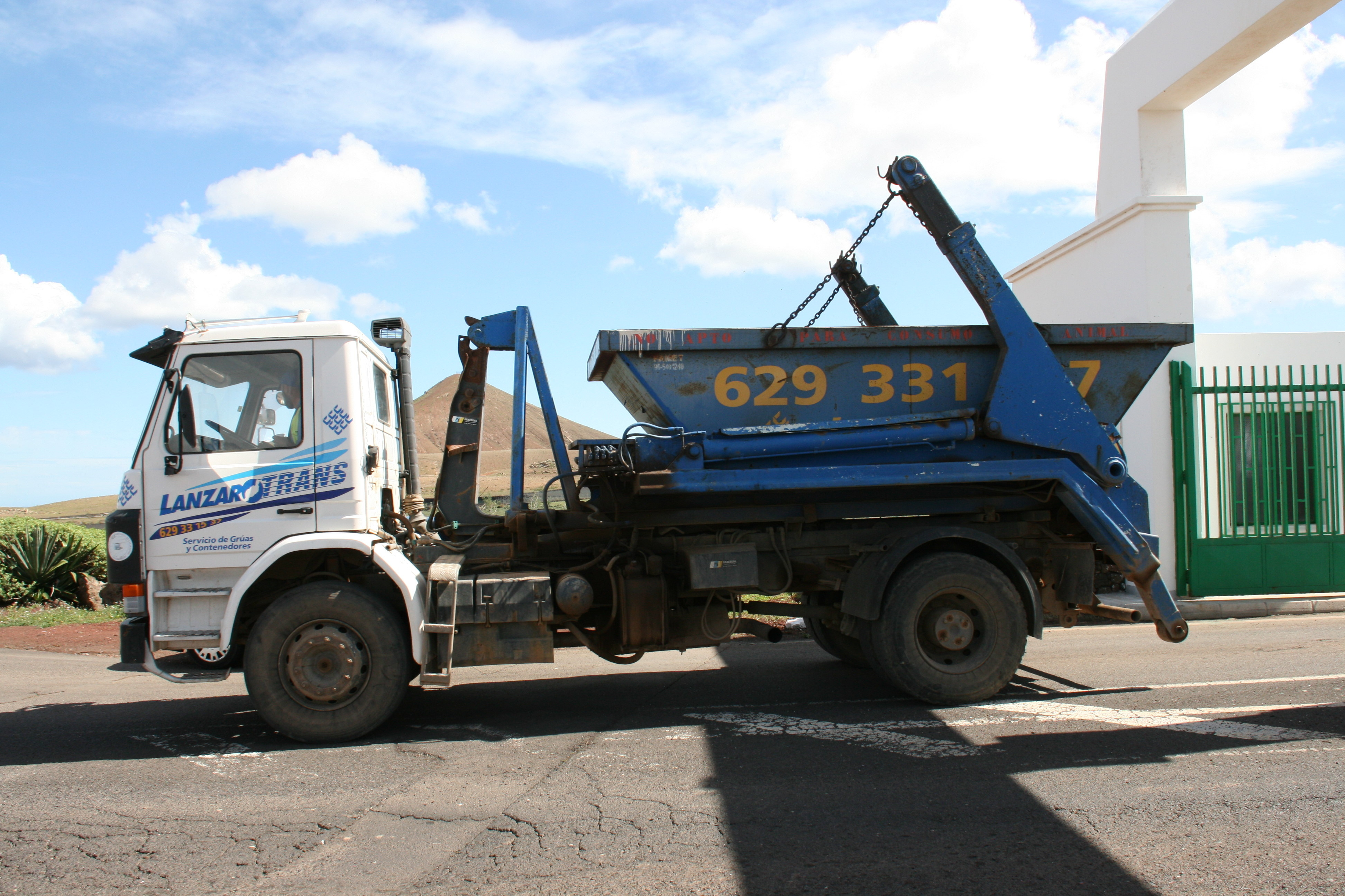 Complejo ambiental de Zonzamas, a landfill in volcano Montaña de Zonzamas at road LZ-34 in Teguise, Lanzarote, Canary Islands